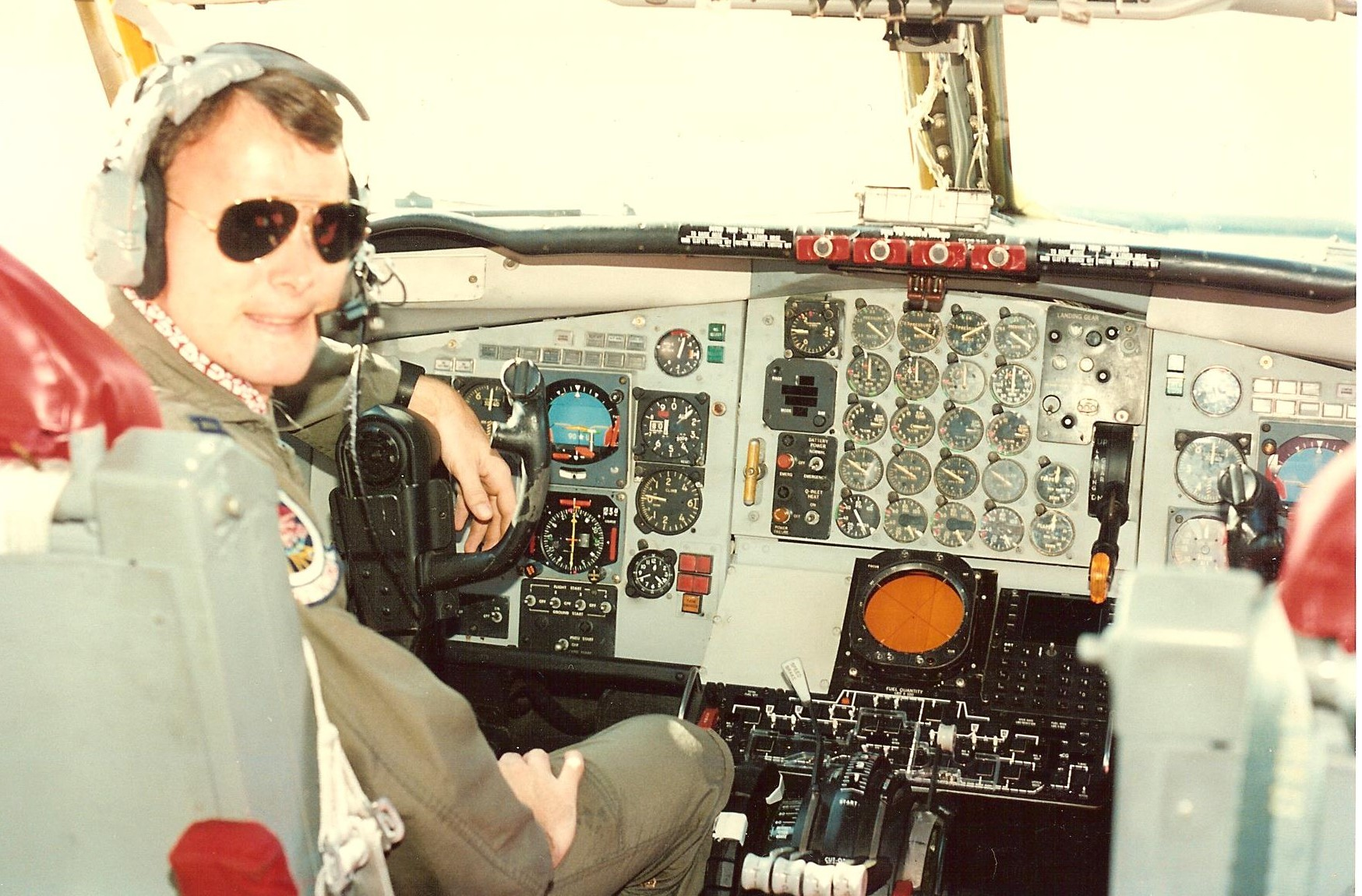 Charles P. Wilson II at the controls of a KC-135Q